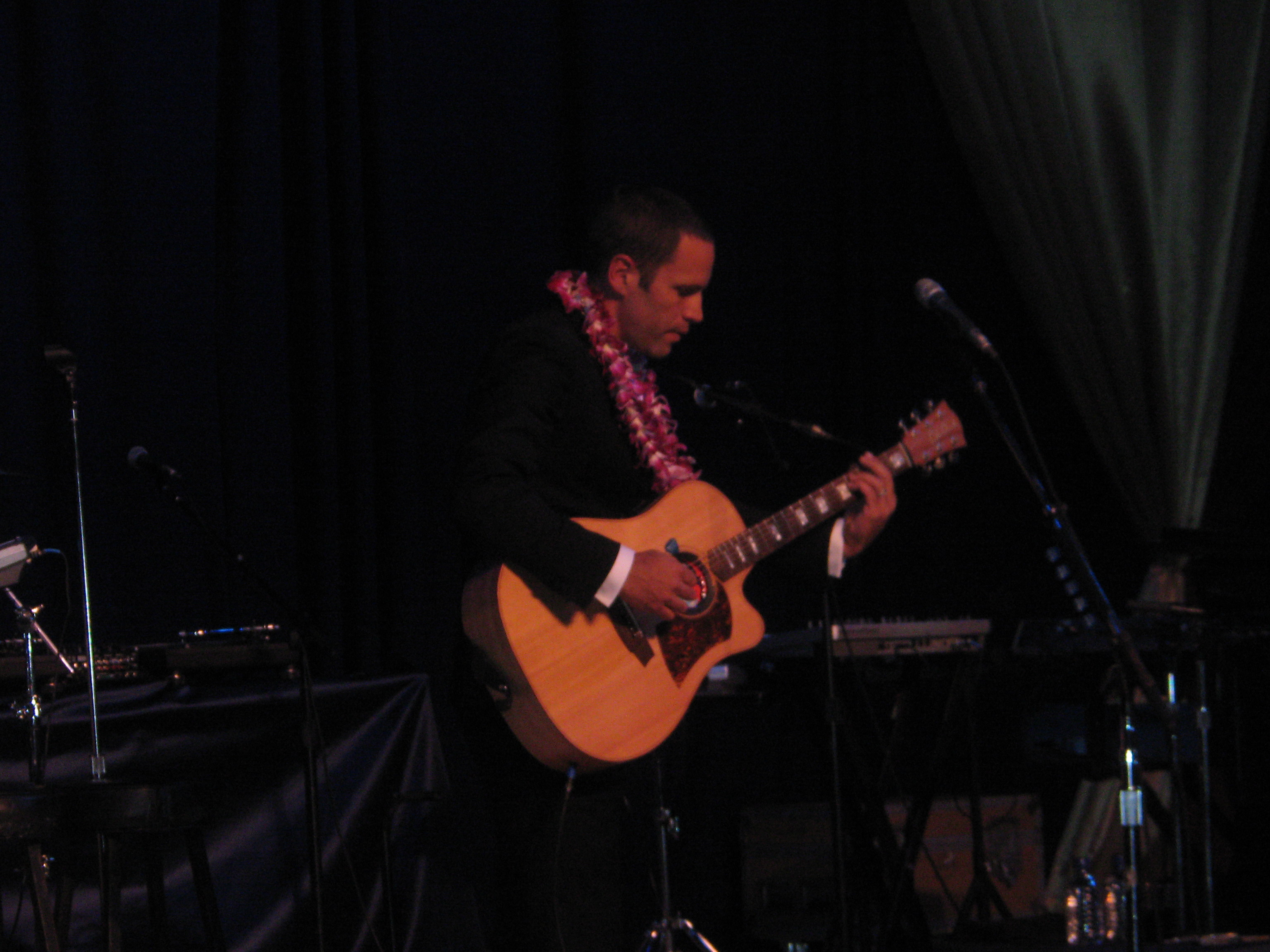 Jack Johnson (musician) at 2009 Obama Home States Inaugural Ball